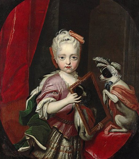 Prinzessin Maria Josepha als Kind